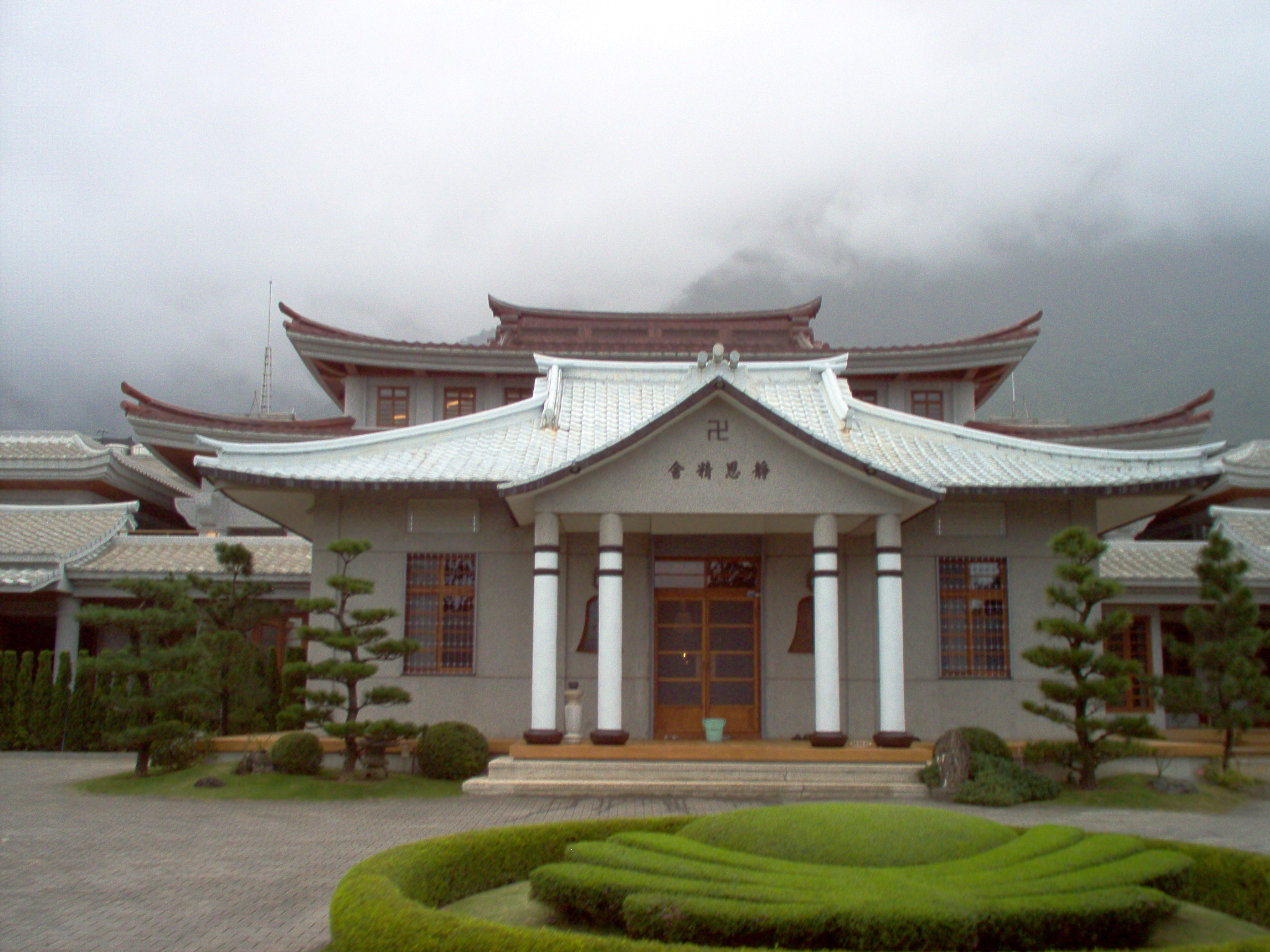 This shows the spiritual home of every Tzu Chi volunteers and member. It is located in Hualien, Taiwan. It is called the Jing Si Abode or 静思精舍 in Chinese. The Jing Si abode is the place where Tzu Chi Foundation has started.